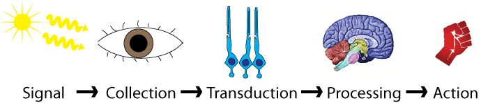 Principle steps of sensory processing